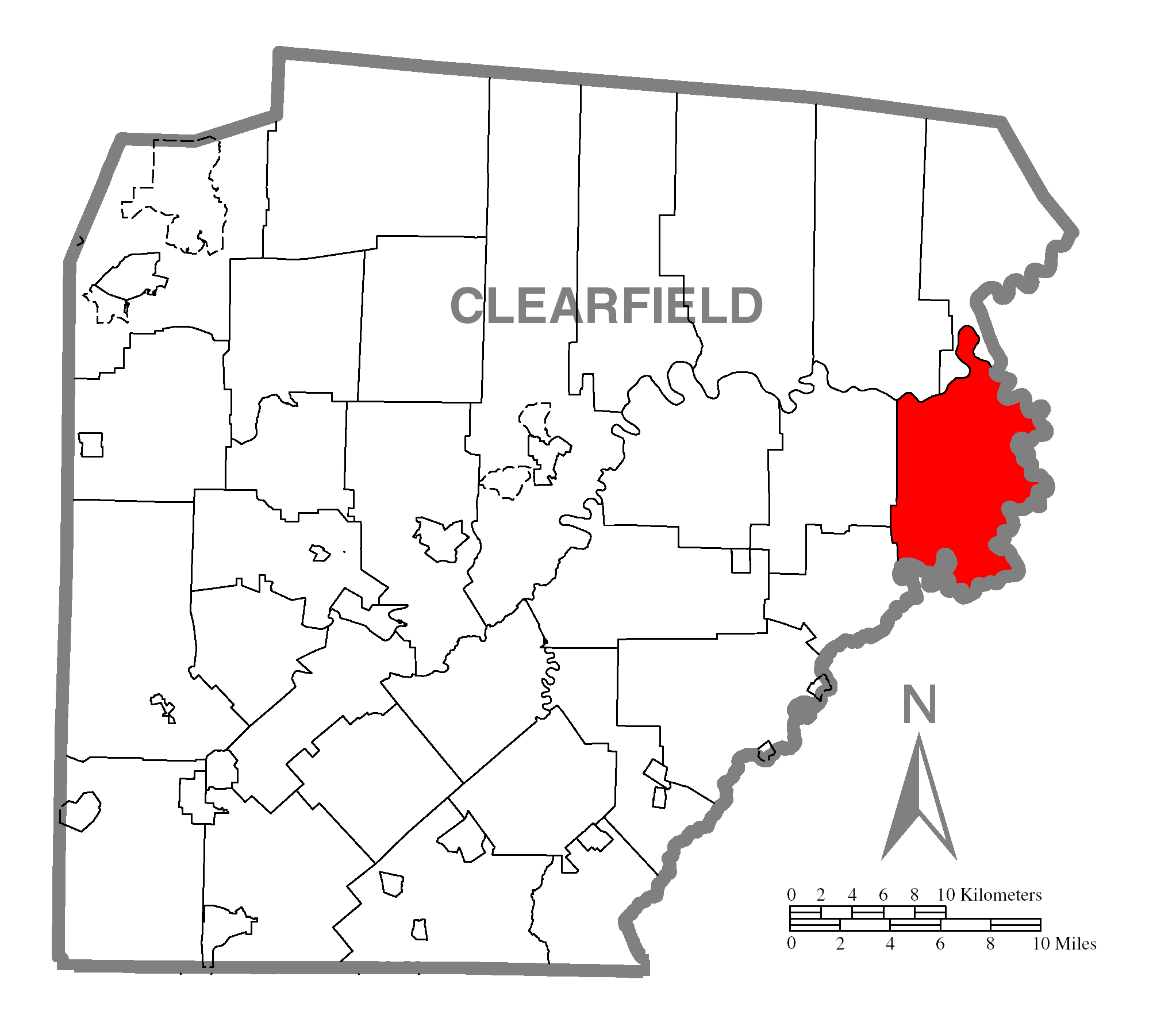 A map of Clearfield County showing Cooper Township, Pennsylvania (alternate) highlighted on the map.